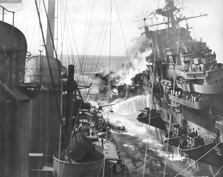 USS Franklin (CV-13) burning off the Japanese coast after she was hit by air attack, 19 March 1945. Photographed from USS Santa Fe (CL-60), which was alongside to help with firefighting and rescue work.